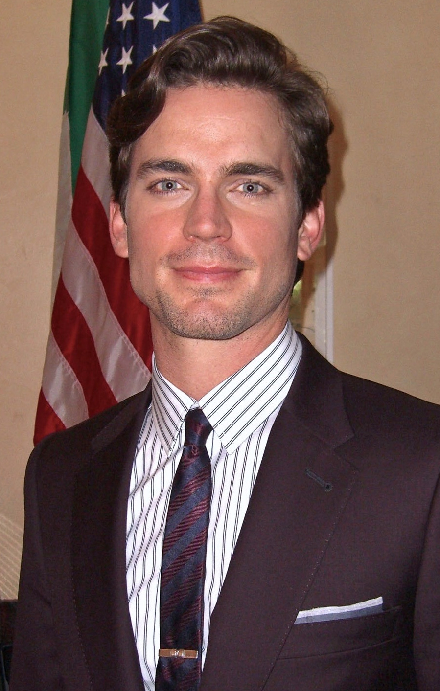 Actor Matthew Bomer during the June 7, 2011 production of "On the Fence", the ninth episode of the third season of the American TV series White Collar at 10 Downing, a restaurant in Manhattan's West Village. Photographed by Luigi Novi. This photo is not in the public domain. It may, however, be used, modified and published for any purpose, free of charge, only if the photographer is properly credited, either by linking the photograph to this page, or with an easily visible credit to the photographer placed near the photo in each instance in which it is used. (See licensing information below.) Publication of this photo without this proper attribution constitutes copyright infringement. If you have any questions, you can contact me on my Wikipedia Talk Page.